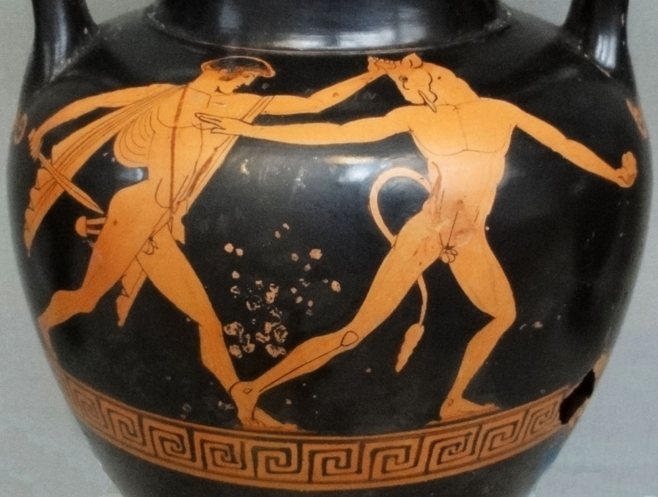 Illustration of Theseus slaying the Minotaur on a neck-amphora. Circa 460 BC.